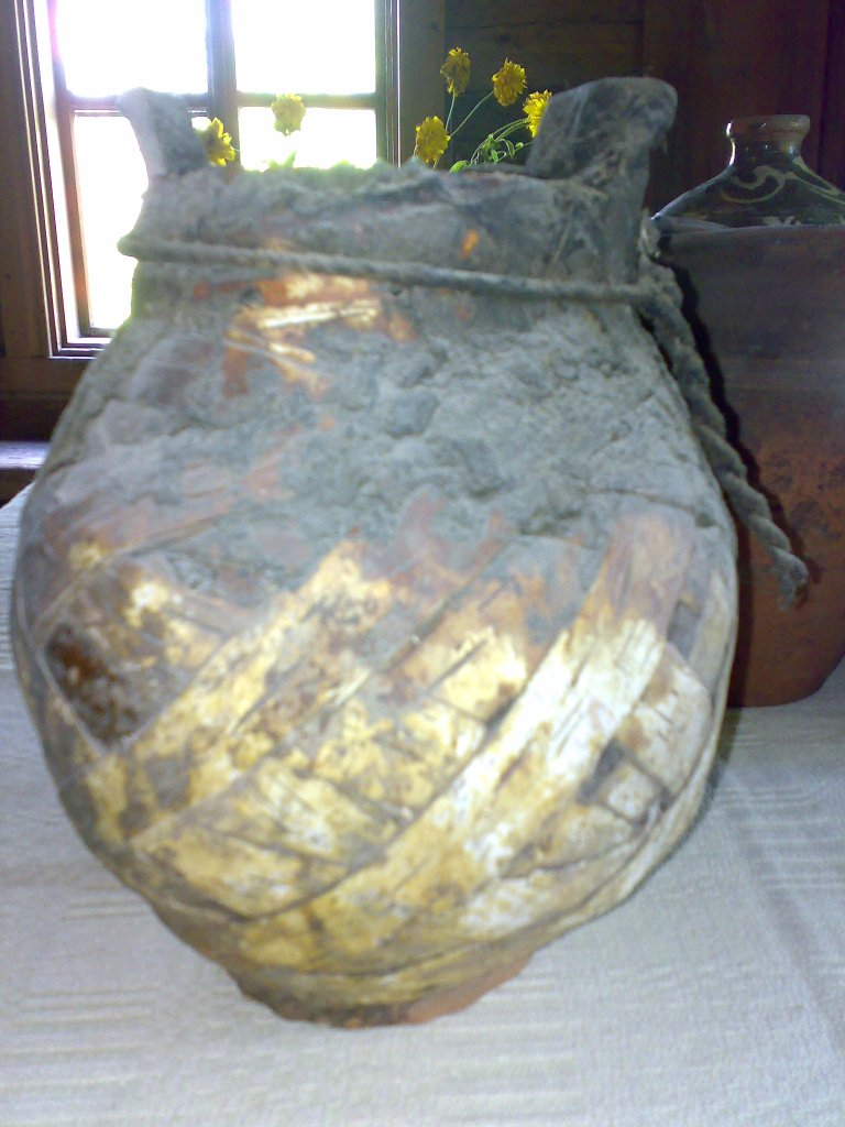 Latgale pottery.